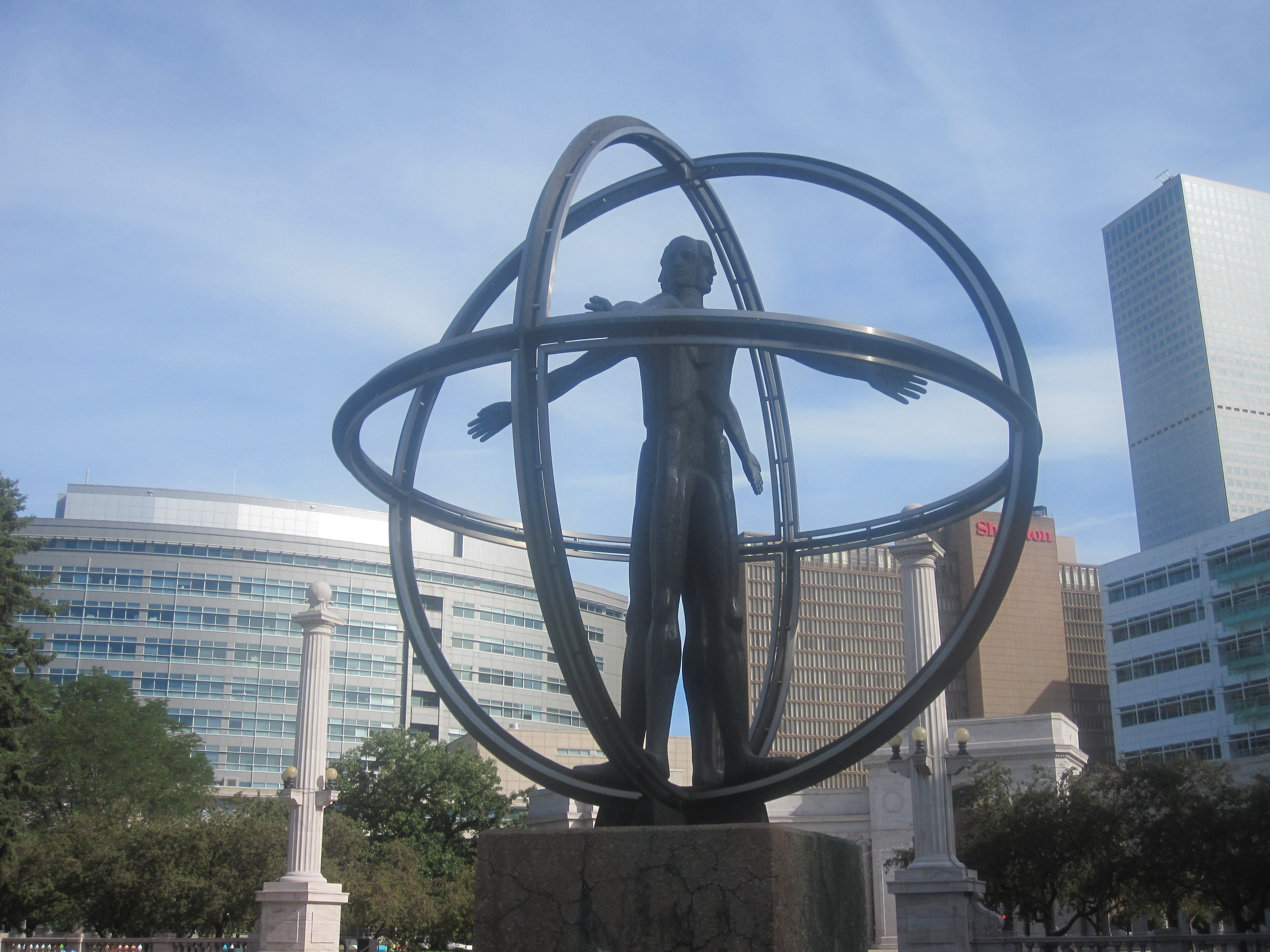 Christopher Columbus monument, Denver, CO.